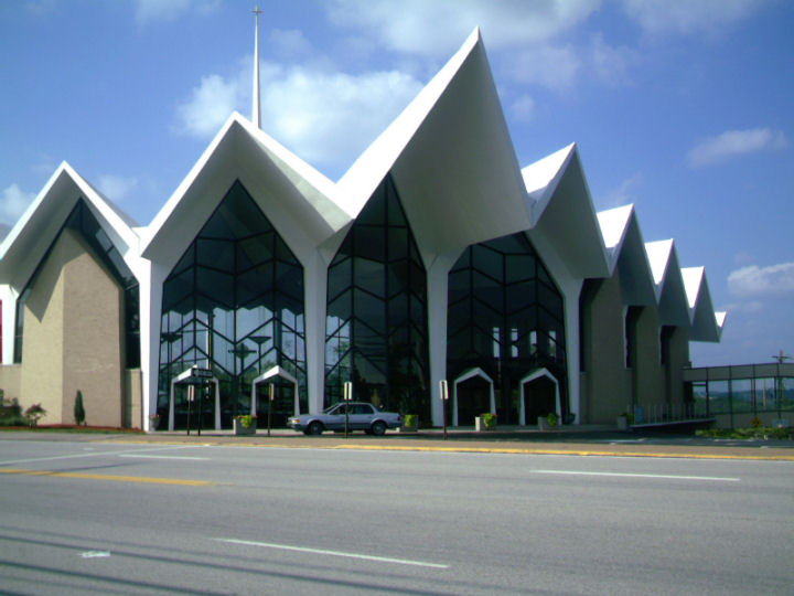 St. Malachy Catholic Church, in Kennedy Township, Pennsylvania.